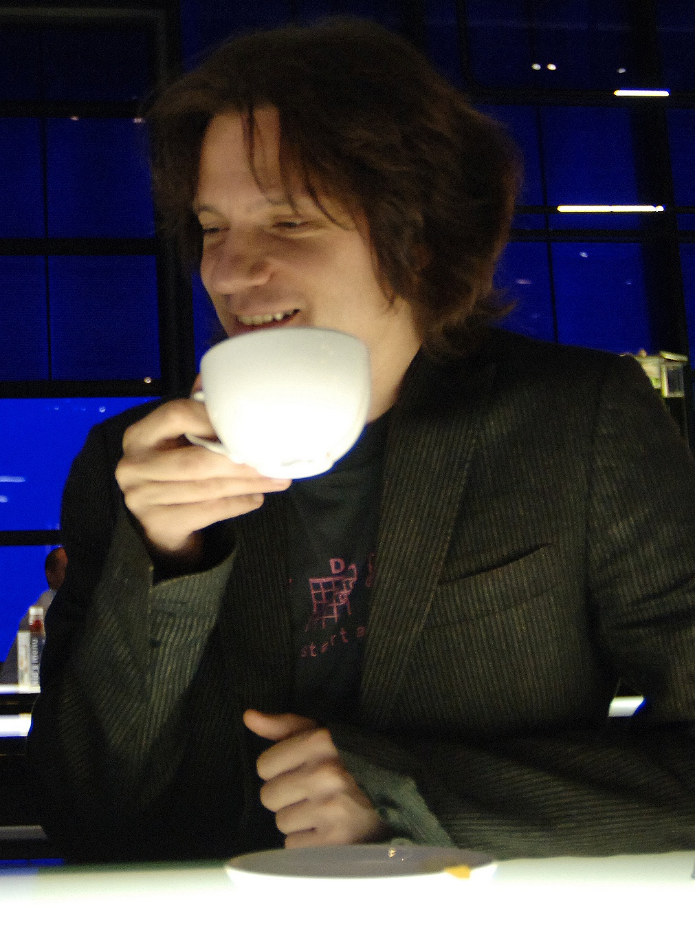 Guy Sigsworth in the Science Museum.